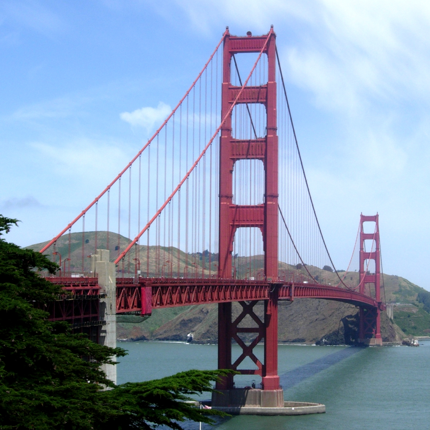 The Golden Gate Bridge, San Francisco.